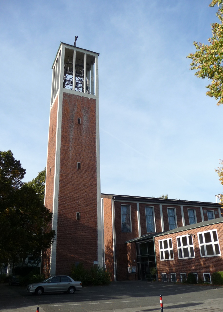 church St. Marien in Bremen-Walle